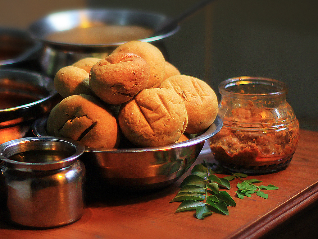 Dal-Bati Choorma:- This devine combination of simple stuff makes it different from other meals. Daal- Baati(made from Wheat floor), Choorma laddoo(made from baati, sugar and dry fruits),Baigan(egg plant/ brinjal and other spices) ka bhurta, Raita or Kadhi(buttermilk), chatni(generally Pudina/ mint) are mainly served together. Ghee is poured onto the bati after crushing it.This cuisine is from Rajasthan and also popular in Madhya Pradesh(mainly in Nimar and Malwa region).